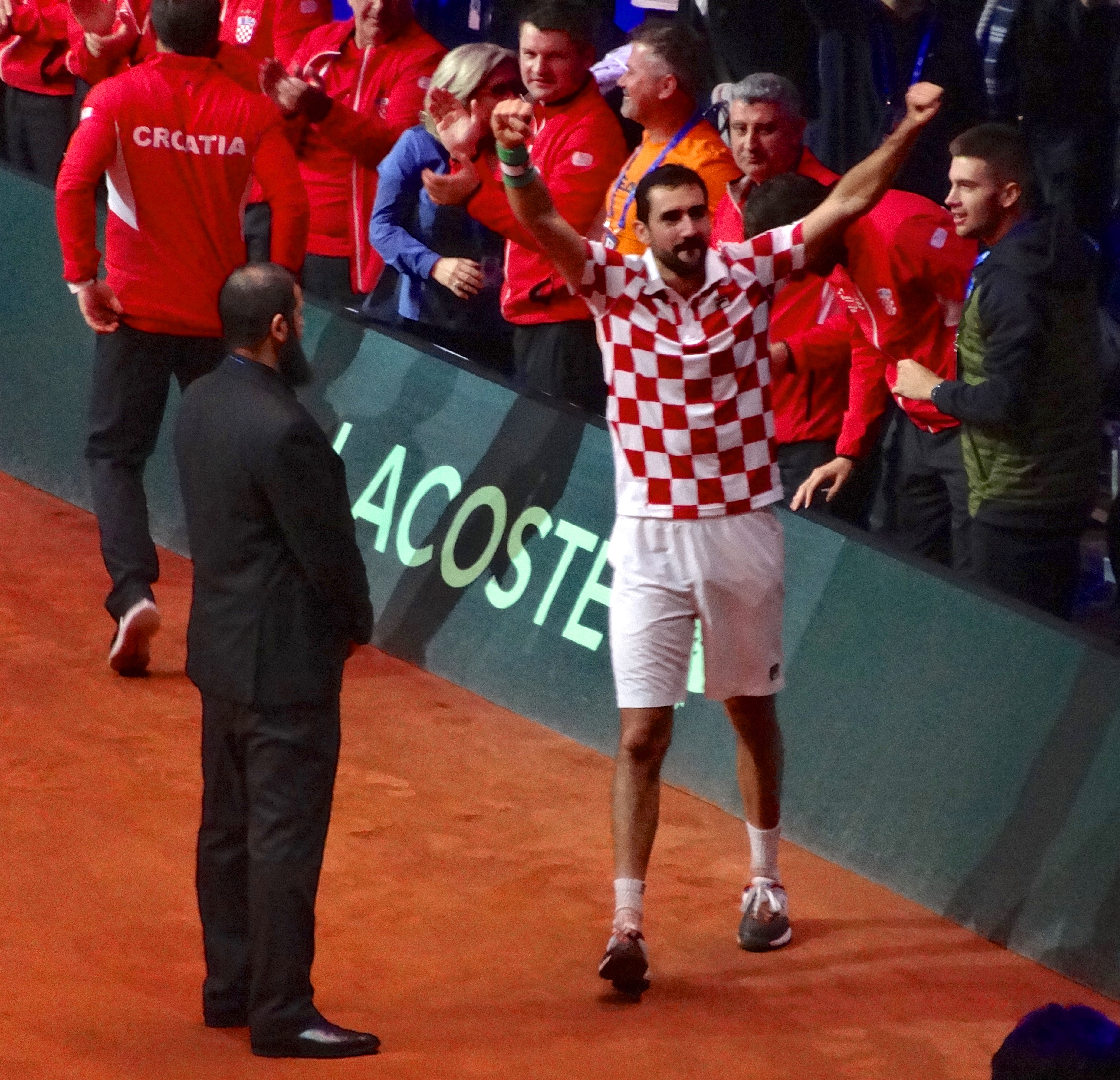 Marin Čilić, Davis Cup Final 2018